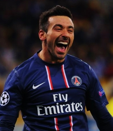 Ezequiel Lavezzi